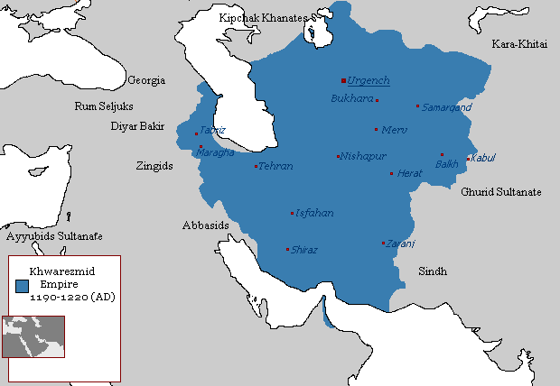 Khwarezmian_Empire_1190_-_1220_(AD).PNG